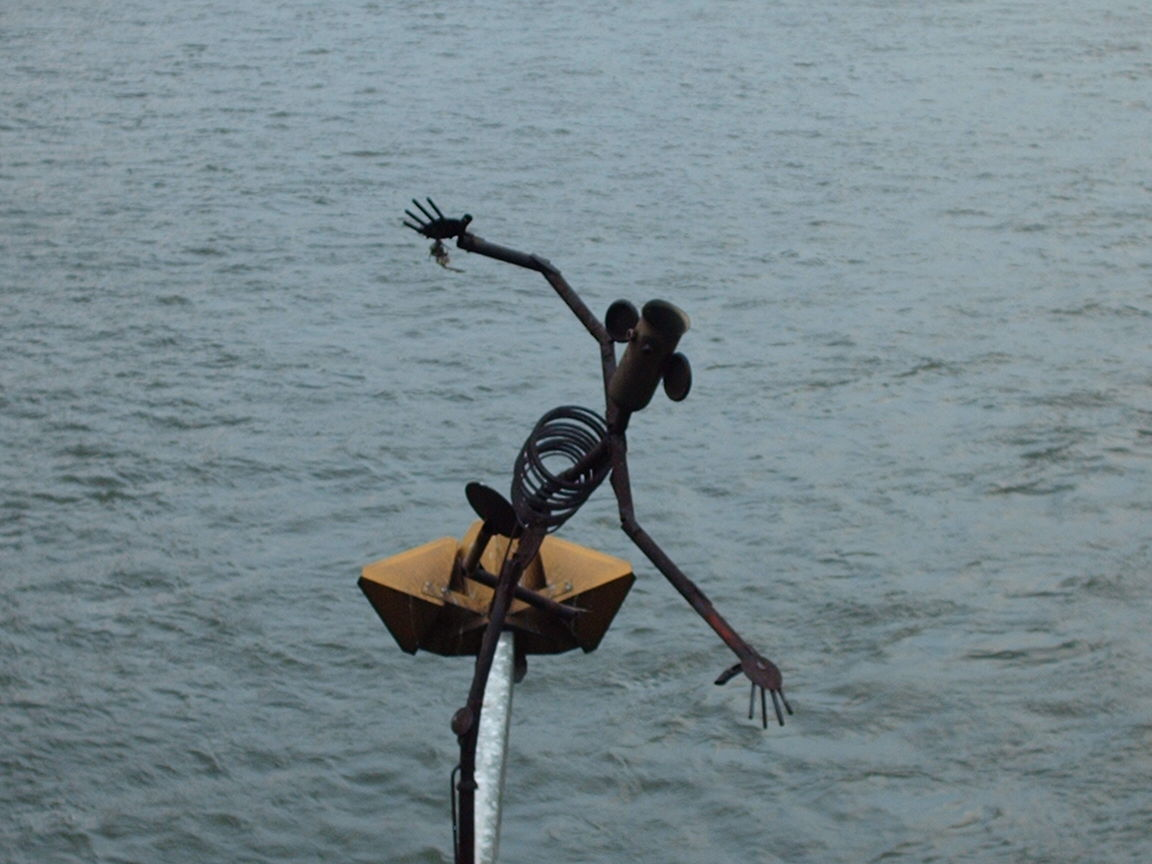 Figure at Hohenzollern Bridge, Cologne, Germany check usage